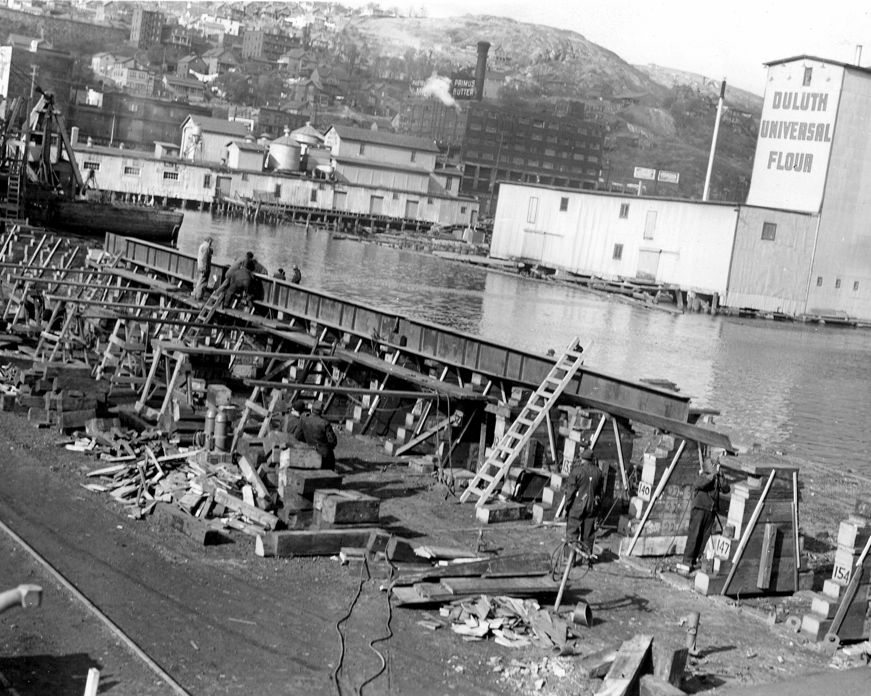 Laying of the keel of USCGC Mariposa. Zenith Dredge Corporation, Duluth, MN, October, 1943.